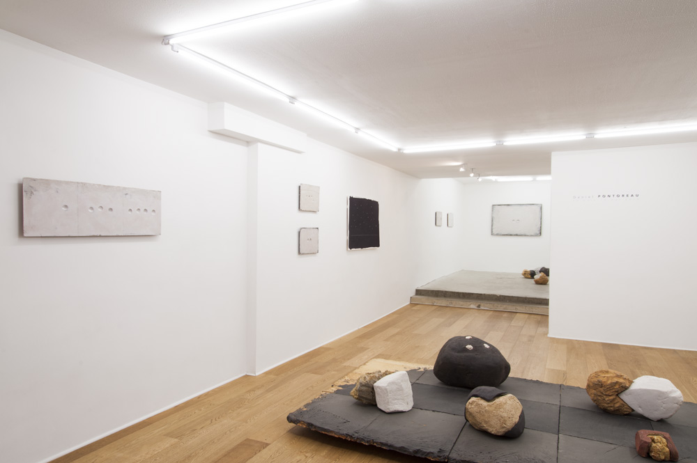 Installation in situ, exposition Daniel pontoreau, à la galerie Fatiha Selam, courtesy de la galerie et de l'artiste